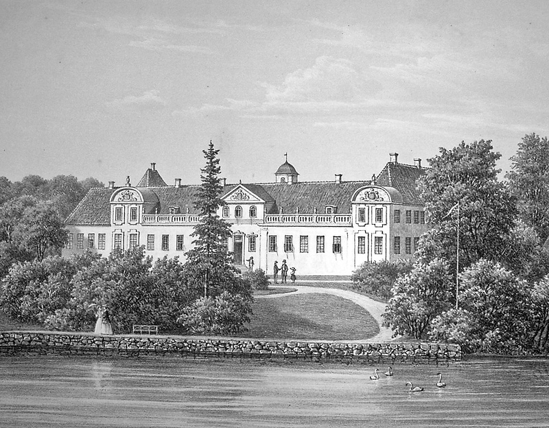 Bregentved is a former noble farm house, mentioned initially in 1319 when king Erik Menved gave Bregentved to Ringsted convent. The farm lies 3 km east of Haslev, in Haslev Kommune.